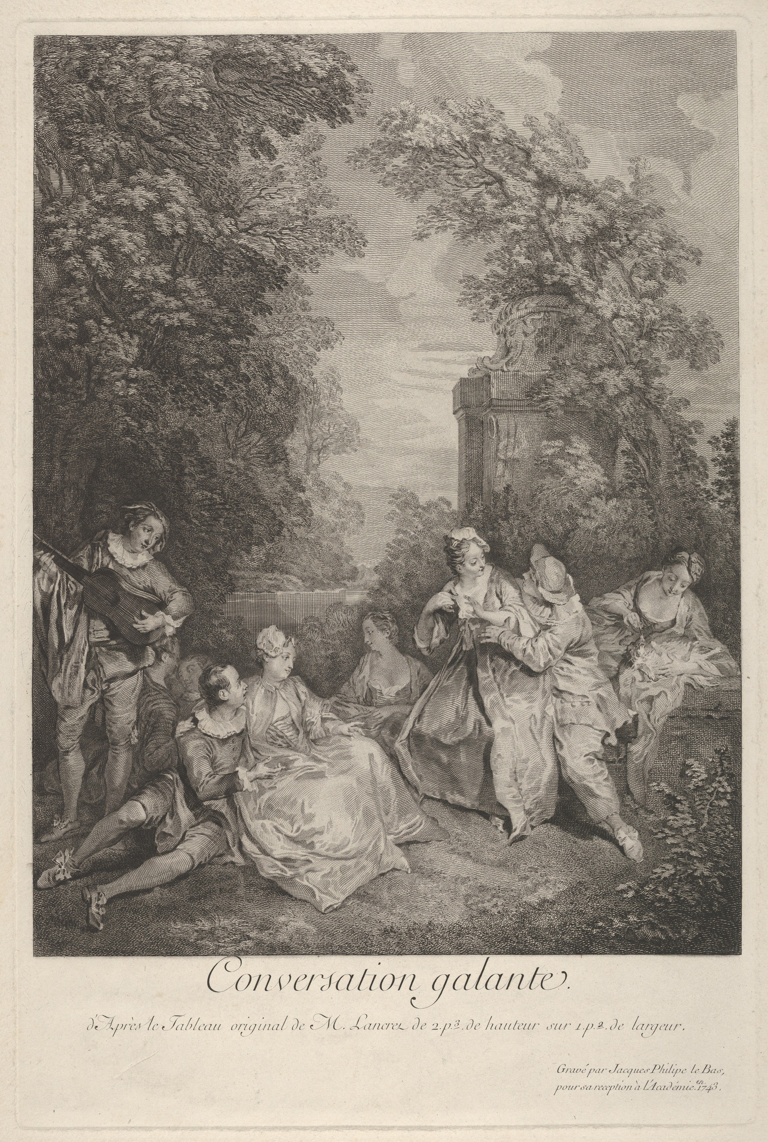 Print; Prints